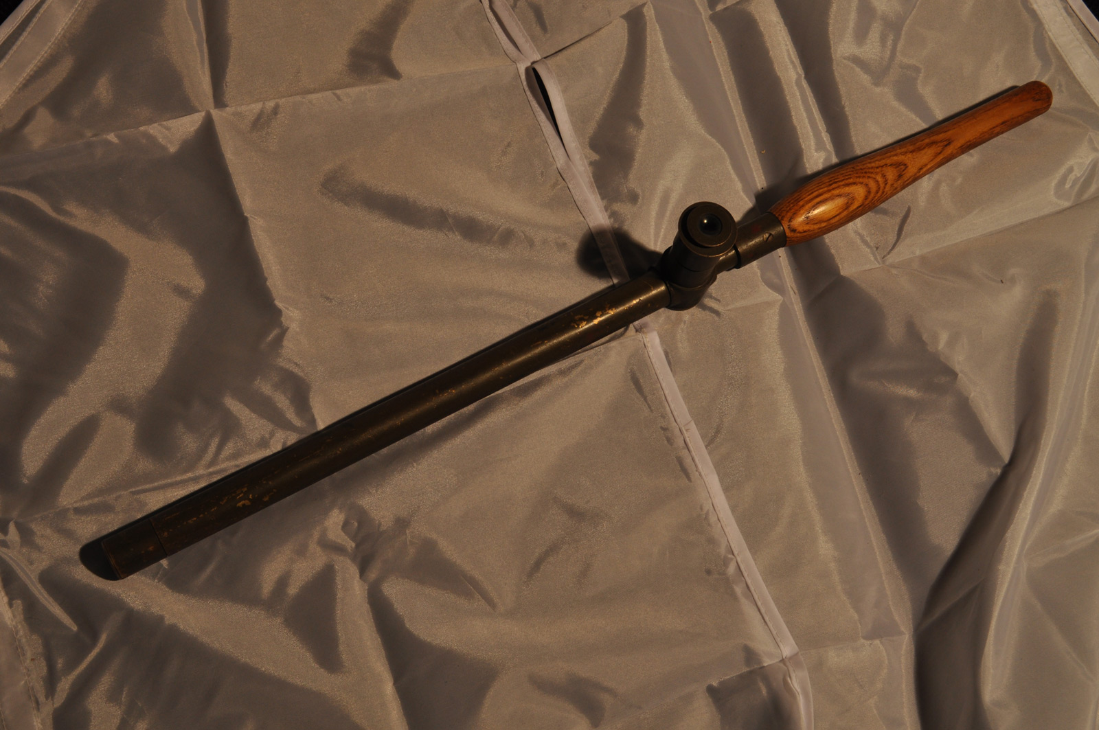 Periscope Mk IX , tube type, with detachable handle. 1917 by HJ Beck.